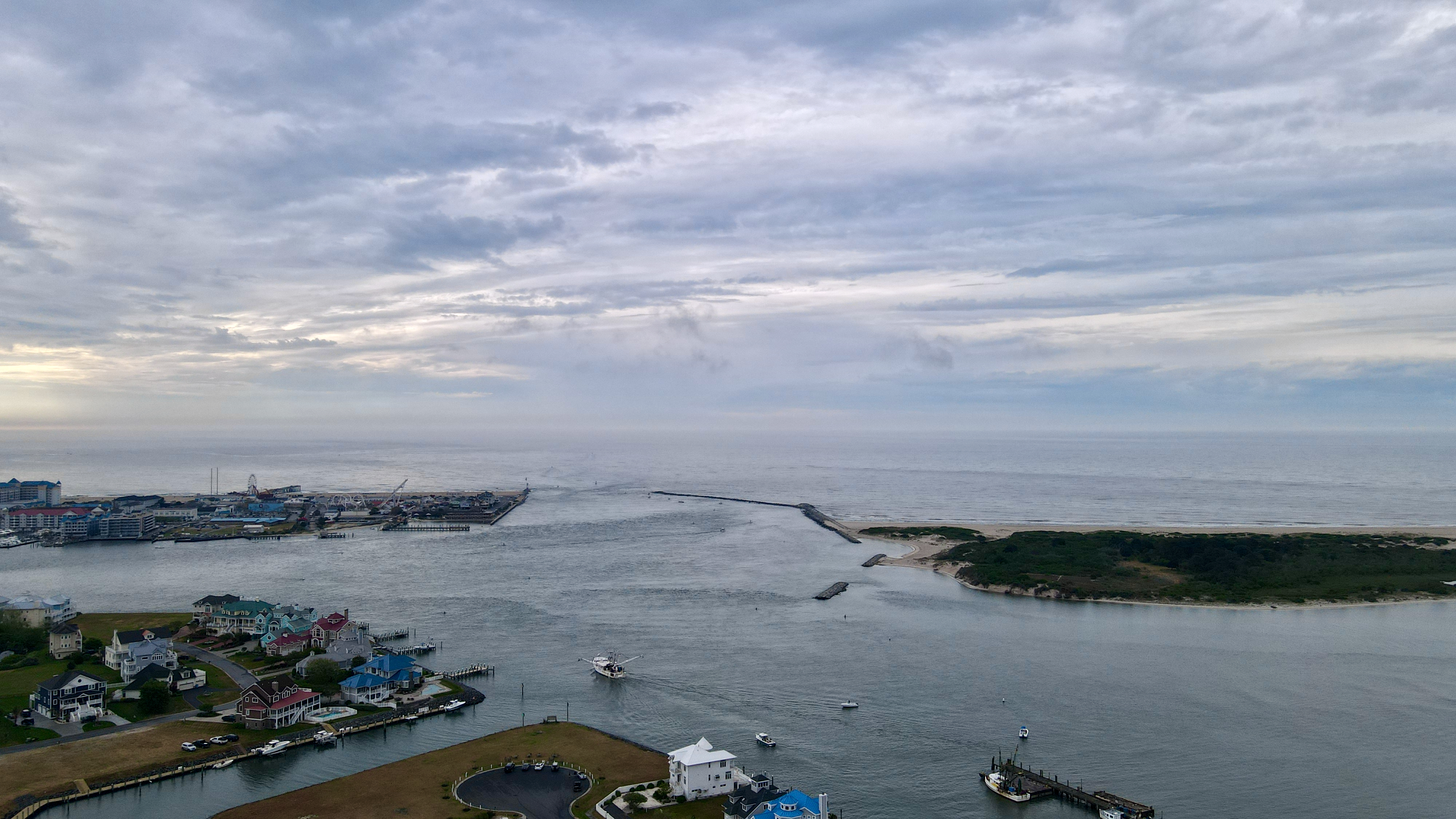 Ocean City Maryland Inlet with Sinepuxent Bay in the foreground